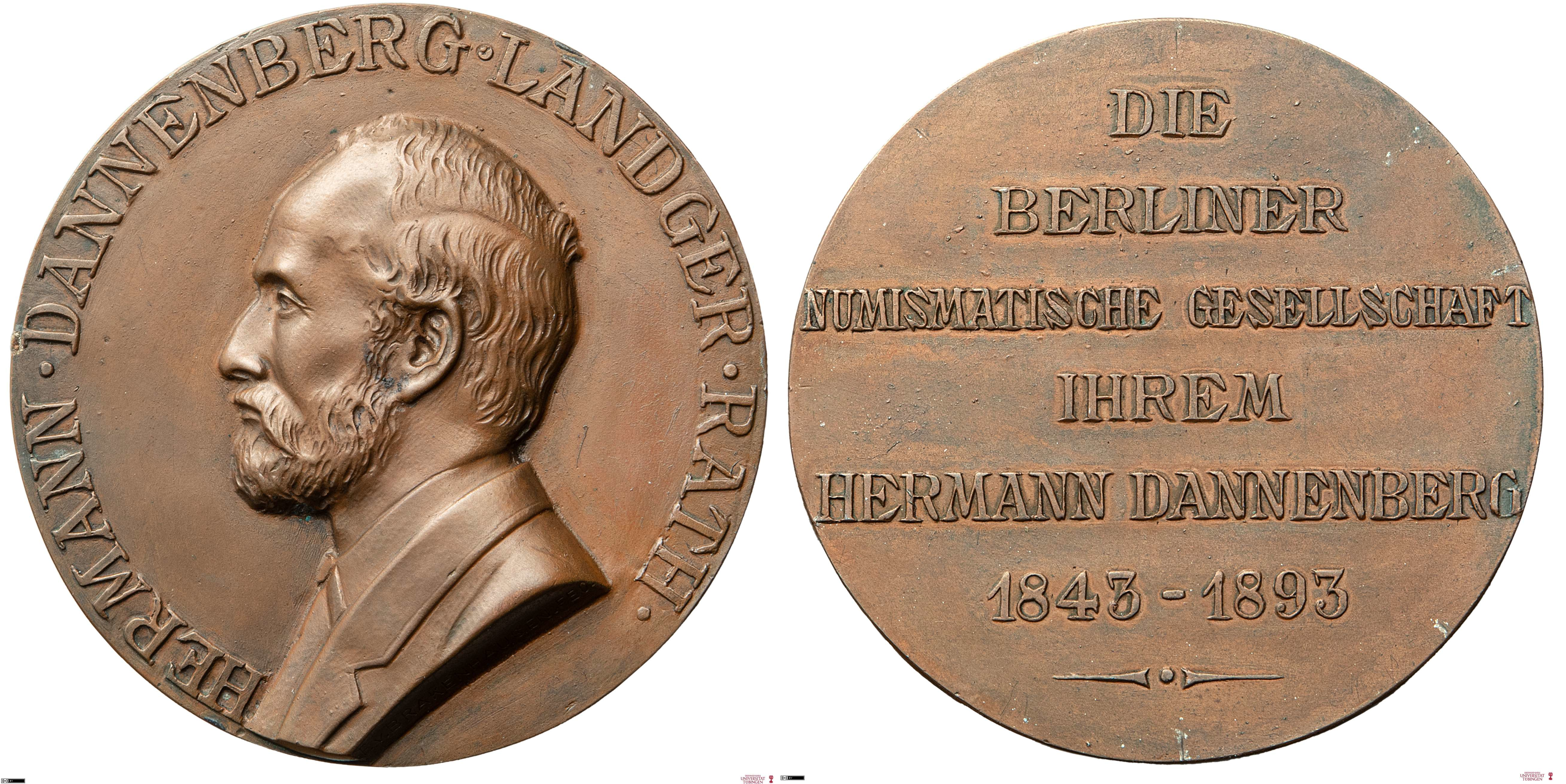 The front side depicts a bust of Hermann Dannenberg surrounded by his name and profession in German. The engraver Ferdinand von Brakenhausen signed below the bust. The reverse names the occasion for strucking the medal also in